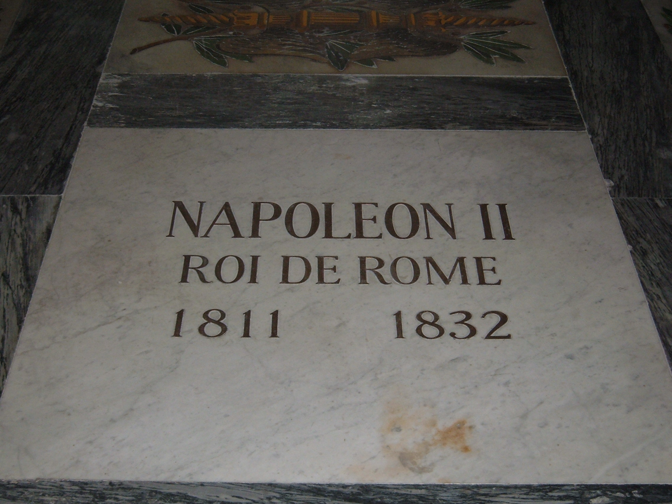 The Tomb of Napoleon II of France in the crypt of Napoleon I of France in Les Invalides, Paris, France.